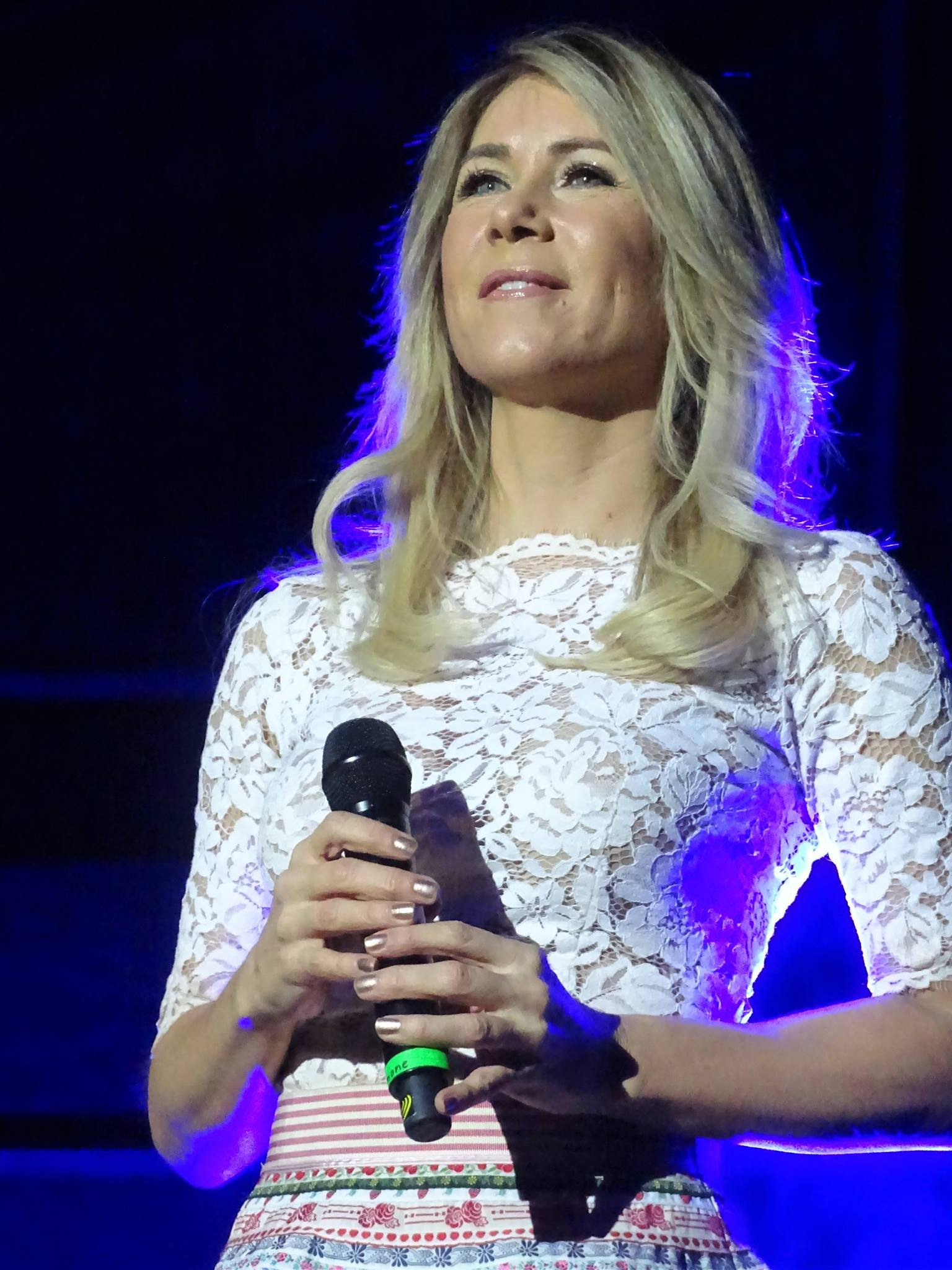 Simone Stelzer on tour with Charly Brunner in 2016